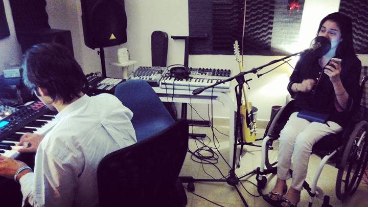 2015 - During a Studio Session with Muniba Mazari